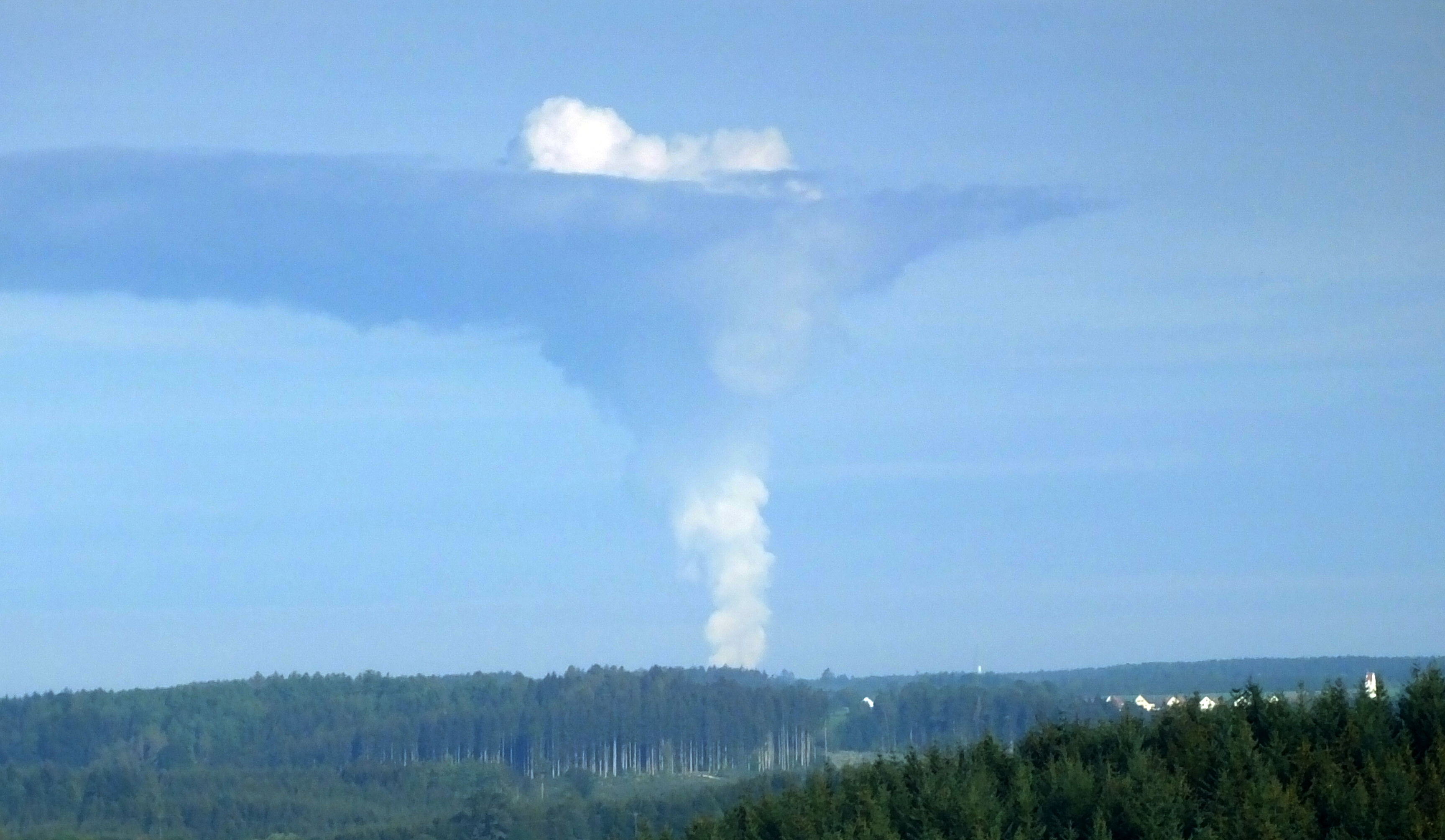 Augsburg - Western forests, Reichenau, view from the Hohe Reute on Gundremmingen Nuclear Power Plant (artificial cloud formation : Homomutatus)